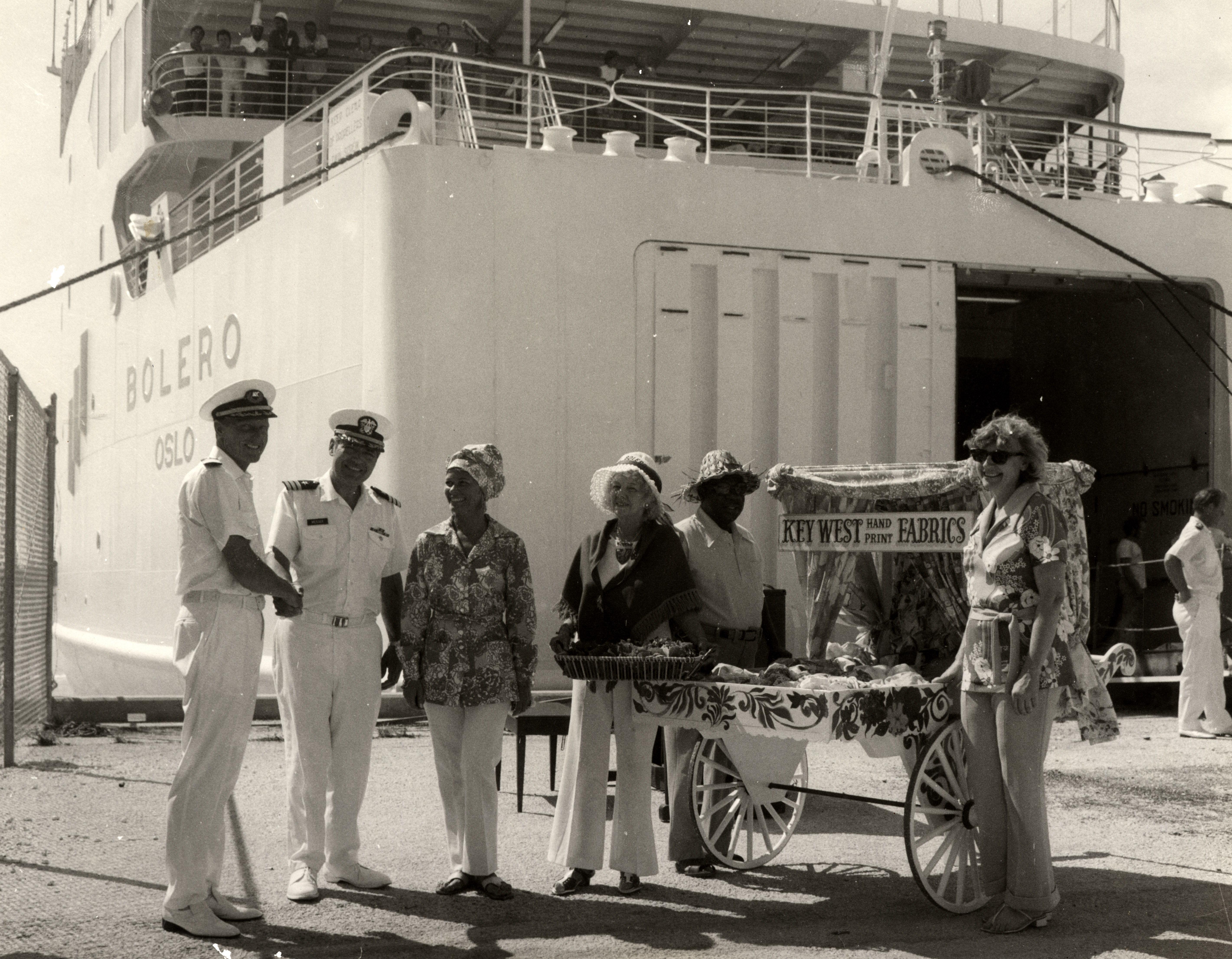 Welcoming the cruise ship Bolero to the dock at Trumbo Point C 1974. From left Captain of Bolero, Commander ACE Eastman, Ingrid Nilsen, unk, Coffee Butler and unk. From the Ida Woodward Barron Collection.